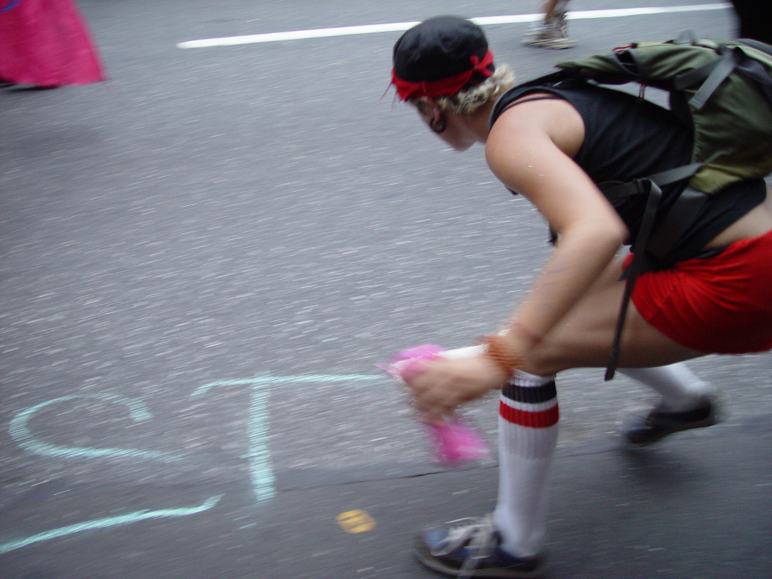 Protest of the Republican National Convention, New York City.